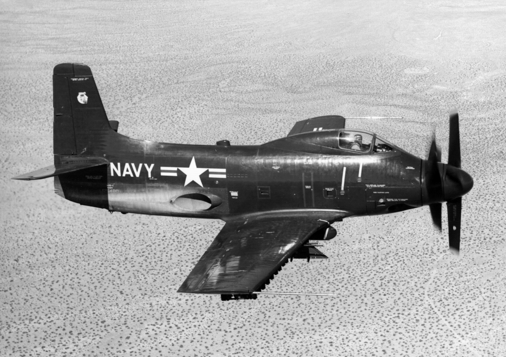 The first of eight U.S. Navy production Douglas A2D-1 Skyshark (BuNo 125480) in flight. It made its first flight on 10 June 1953 but crashed near Lake Los Angeles on 5 August 1954 after suffering a gearbox failure. The pilot ejected safely.